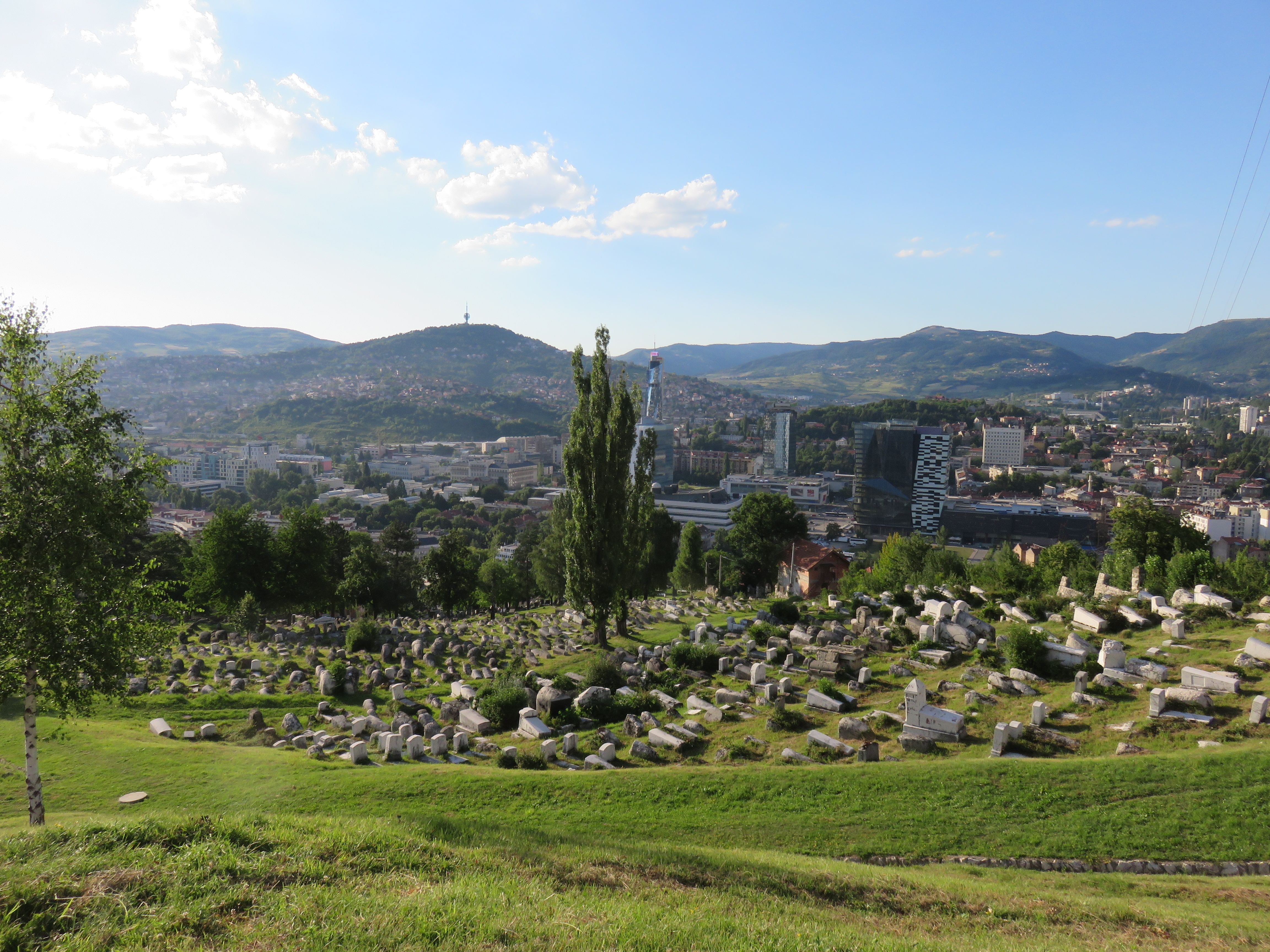 View to the modern part of the city from the Jewish cemetery